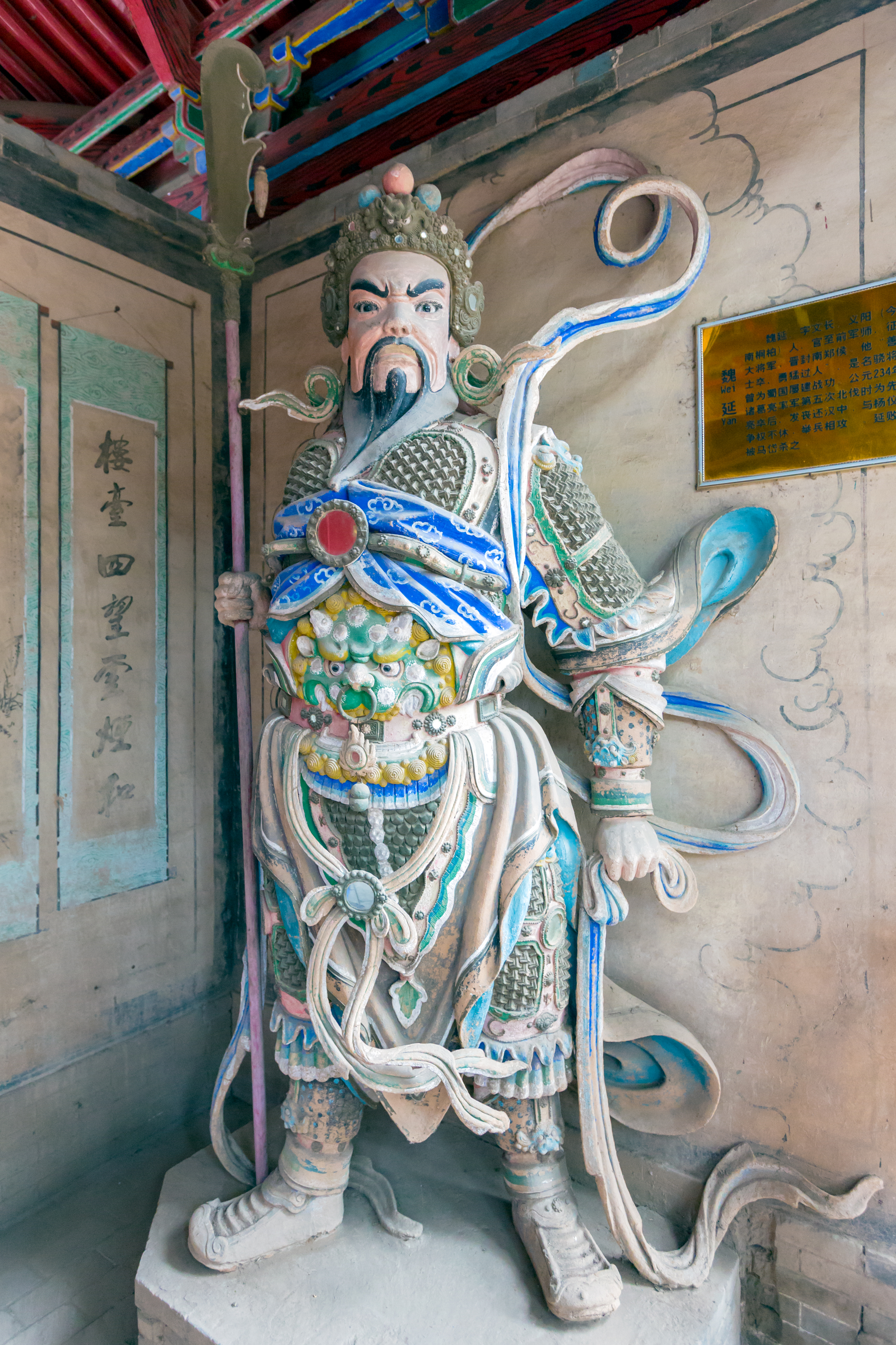 Wei Yan (魏延)